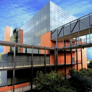 The College of Engineering buildings are located on the northwest section of the CSULB campus.